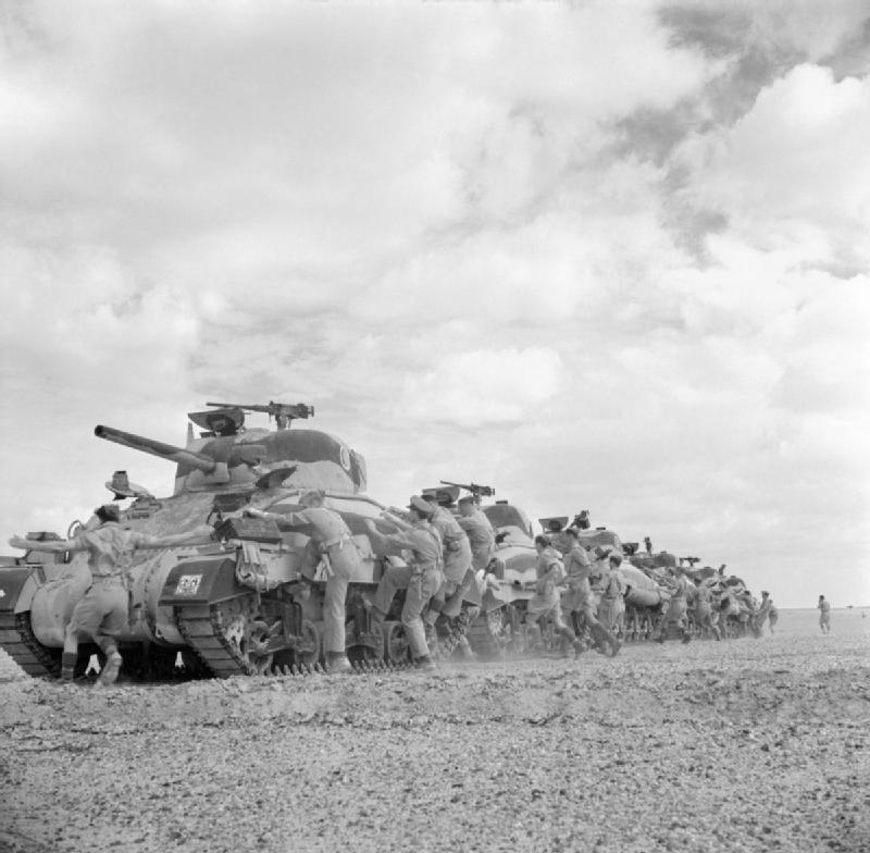 Crews climb aboard Sherman tanks of The Queen's Bays (2nd Dragoon Guards), 1st Armoured Division at El Alamein, 24 October 1942. Crews climb aboard Sherman tanks of The Queen's Bays (2nd Dragoon Guards), 1st Armoured Division at El Alamein, 24 October 1942.